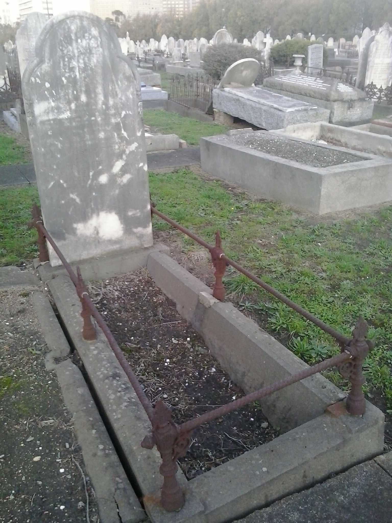 The gravesite of cricketer and Australian rules footballer George Coulthard, Melbourne General Cemetery.